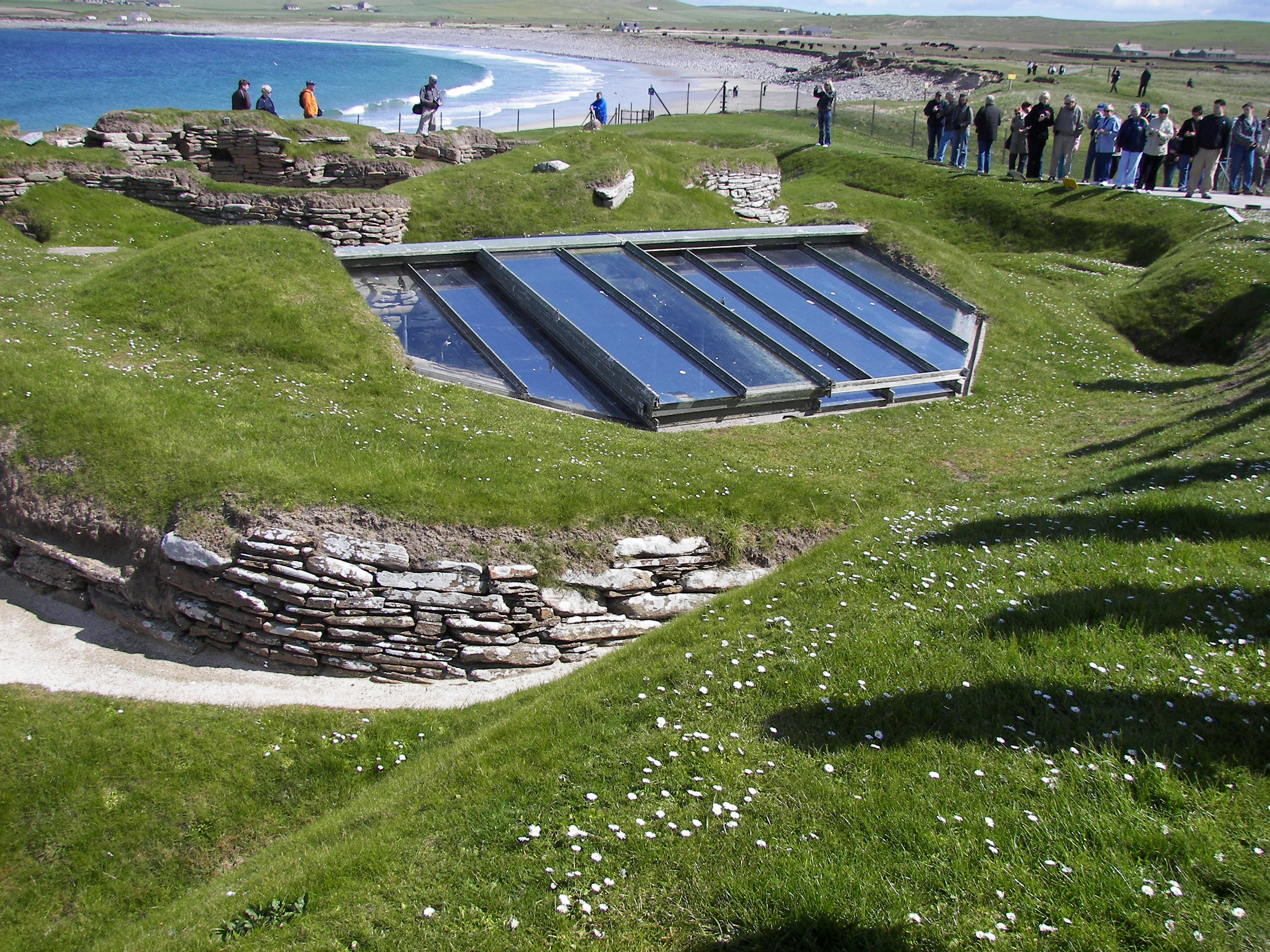 Covered house 7 of Skara Brae.